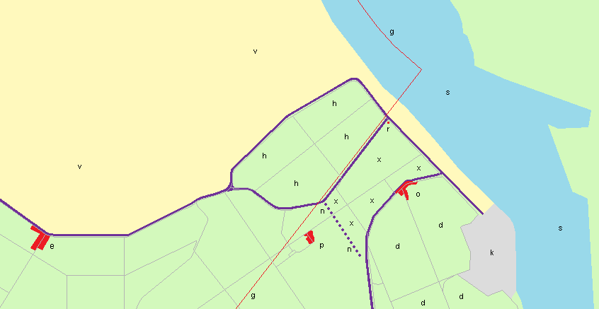 The Hedwigepolder: in a bilateral treaty between the Netherlands and Belgium an agreement was made to deepen the river Schelde, to facilitate ships' access to the port of Antwerp. In order to compensate for the loss of nature, it was decided to flood the (Dutch) Hedwigepolder and create a new nature reserve there. In 2009 the Dutch government reversed the decision and searched for other ways to compensate the deepening of the Schelde. The Belgian government wants to adhere to the original decision, as it believes it is a better solution than the alternatives. In 2012, the Dutch government also chose for this option.